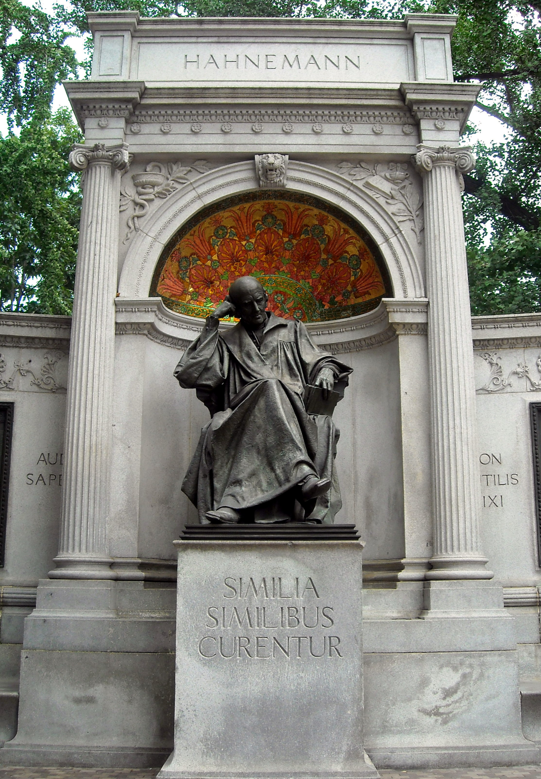 The Samuel Hahnemann Monument located at Scott Circle in Washington, D.C. Designed by Charles Henry Niehaus and Julius F. Harder in 1900, the Classical Revival monument is listed on the National Register of Historic Places.